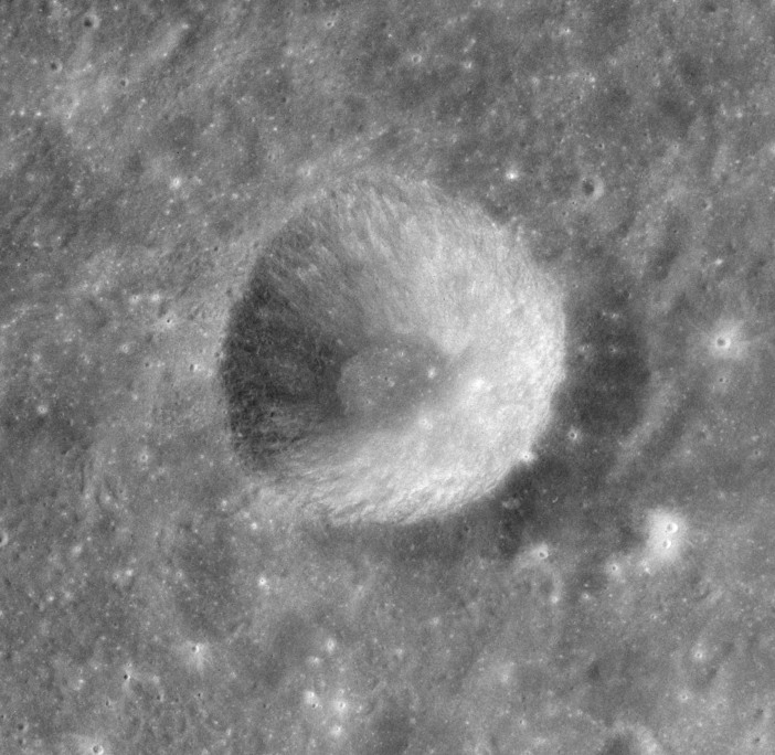 AS-16-M-2901 Knox-Shaw crater, shown here at a relatively high sun angle, is on the floor of Banachiewicz.